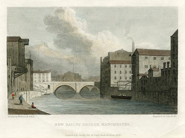 "New Bailey Bridge, Manchester" engraved by John Roffe after a picture by W.Westall, published in Great Britain Illustrated, 1830. Steel engraved antique print with recent hand colour. Size 14 x 10.5 cms, including title, plus margins. Ref G5237